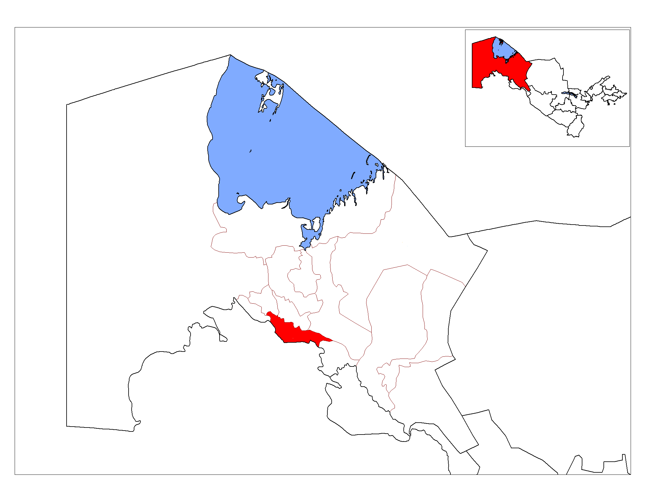 Location of Xo’jayli Disrict in Qoraqalpog’iston.